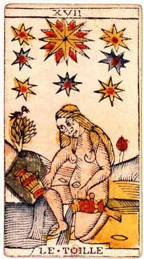 An original card from the tarot deck of Jean Dodal of Lyon, a classic Tarot of Marseilles deck which dates from 1701-1715.